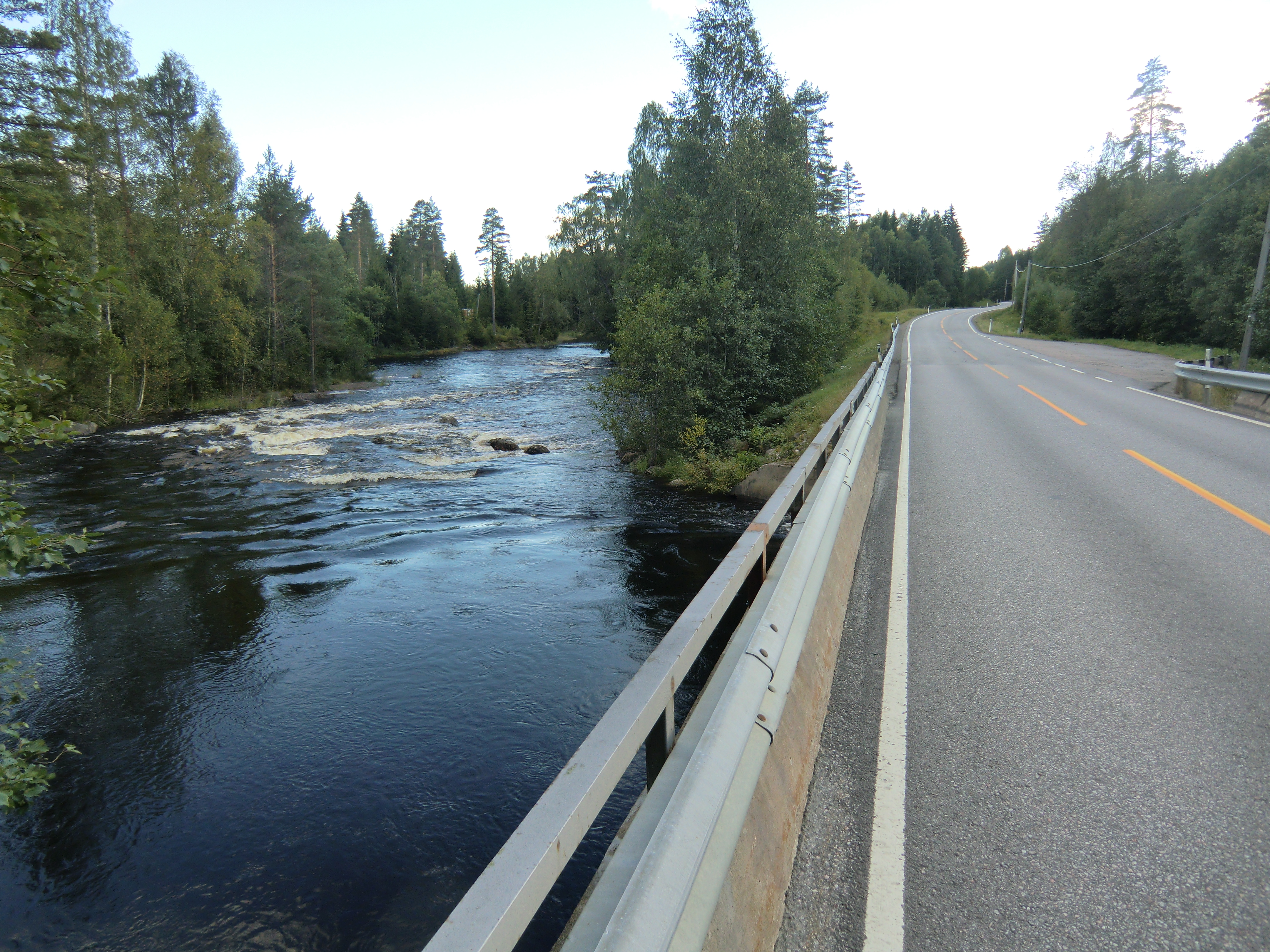 River Byälven/Mangenvassdraget at the crossing of the road fylkesvei 21 in Norway.